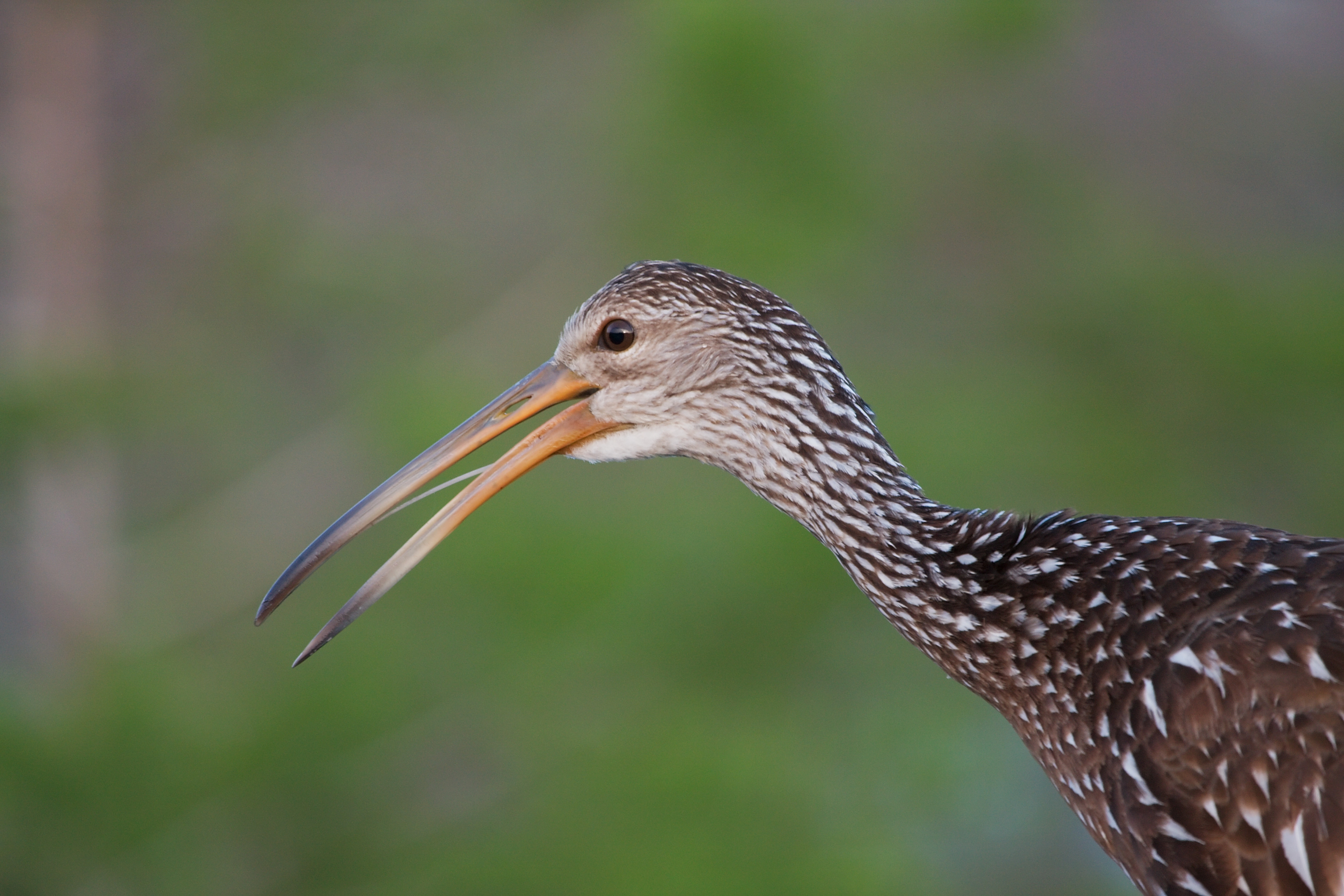 A Limpkin (Aramus guarauna), taken at the Green Cay Nature Center, Boynton Beach, Florida, USA